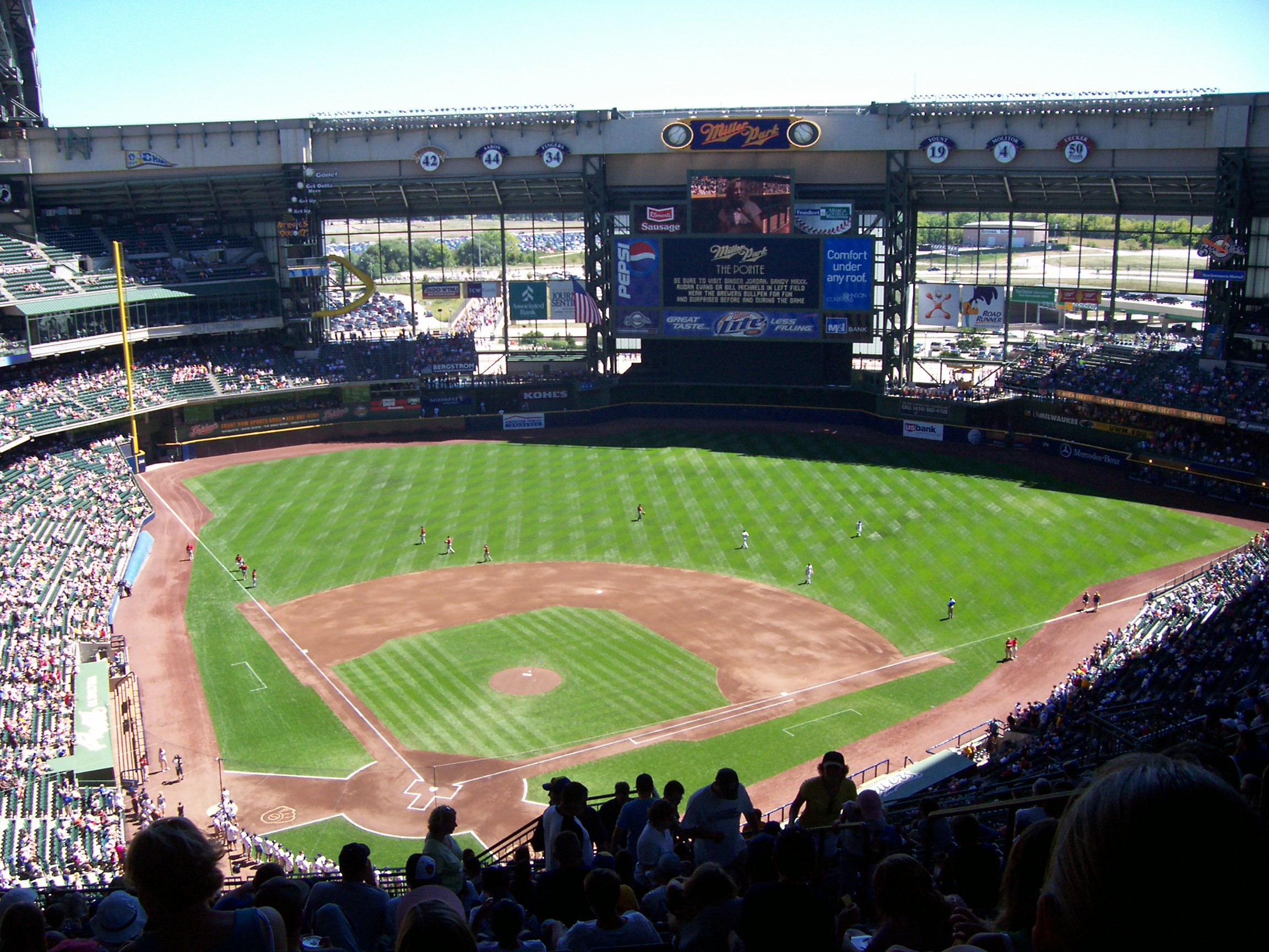 00:31, 21 August 2006 . . Royalbroil . . 2304×1728 (811,704 bytes)(Picture of Miller Park in Milwaukee, Wisconsin, USA from my seat in the top of the stadium, taken at the August 20, 2006 game against Roger Clemens and the Houston Astros by User:Royalbroil.)